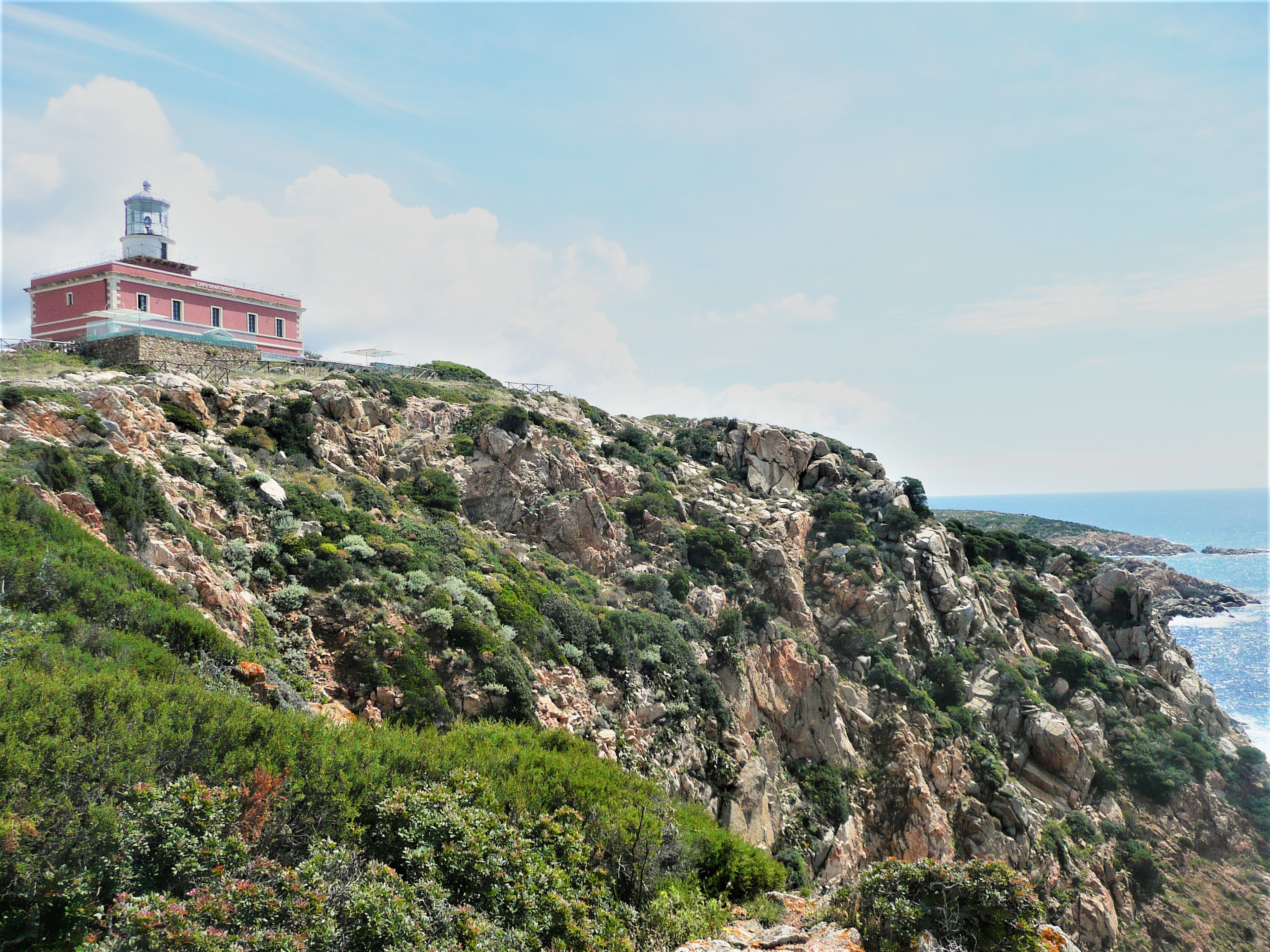 Faro Capo Spartivento is located in the very south of Sardinia, Italy. It has been turned into a luxury hotel in 2009, but the lighthouse's headlight is still owned by the Italian navy.